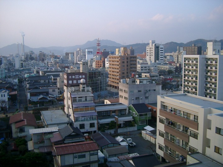 Suhobei took this picture in Shunan in December 2006.